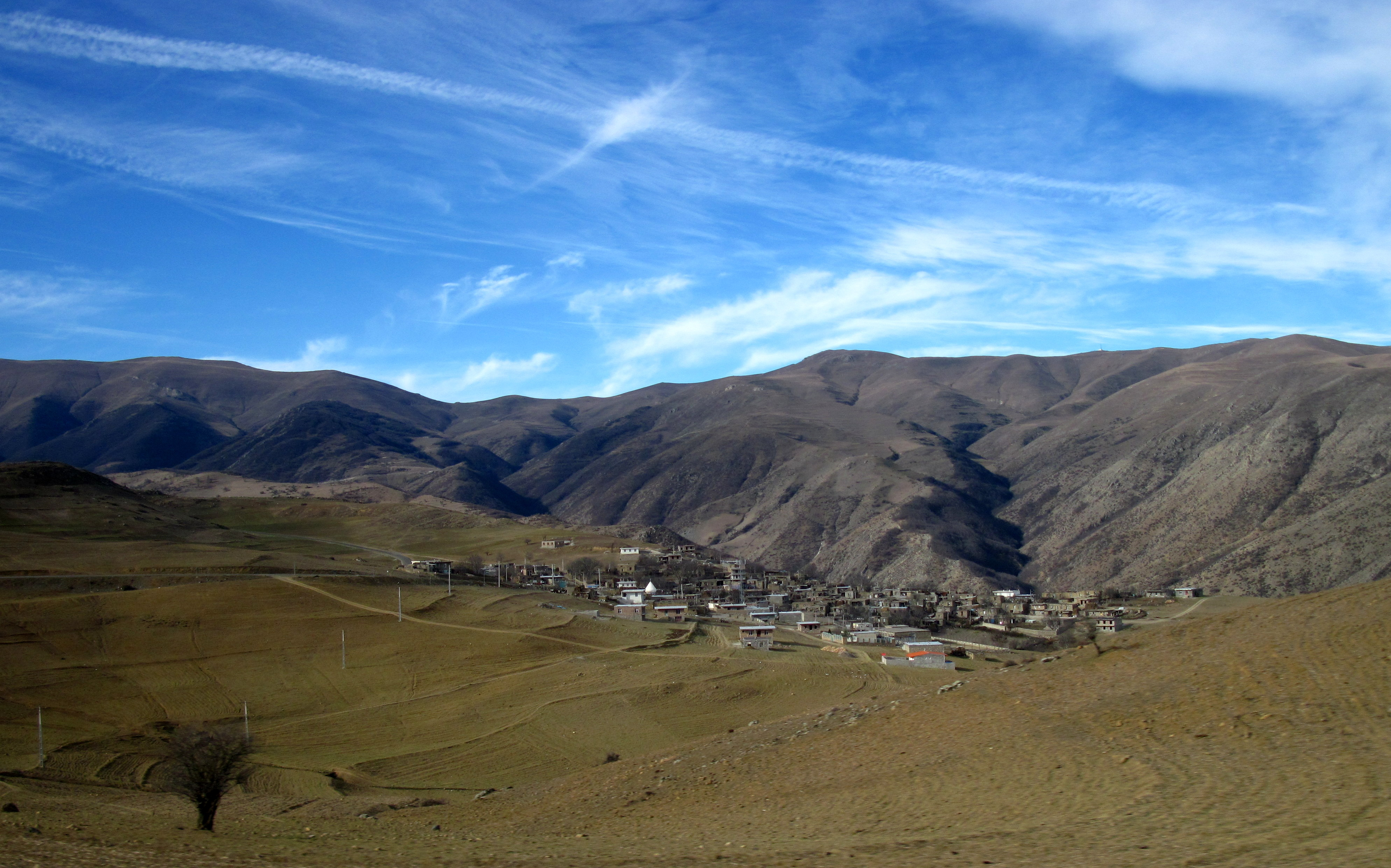 For Oslou wikipage.